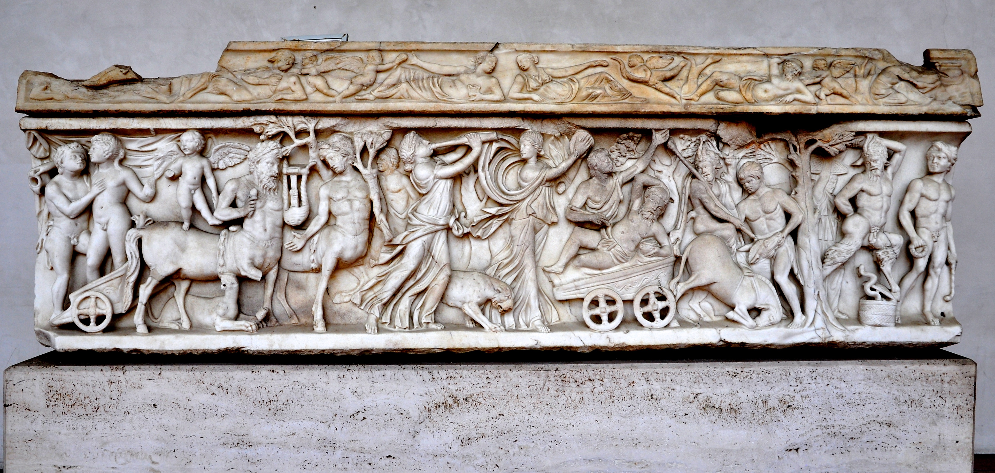 Roman sarcophagus showing a Dionysiac procession. Ca. 160-170 AD. Baths of Diocletian, Rome. Photo by Mont Allen.